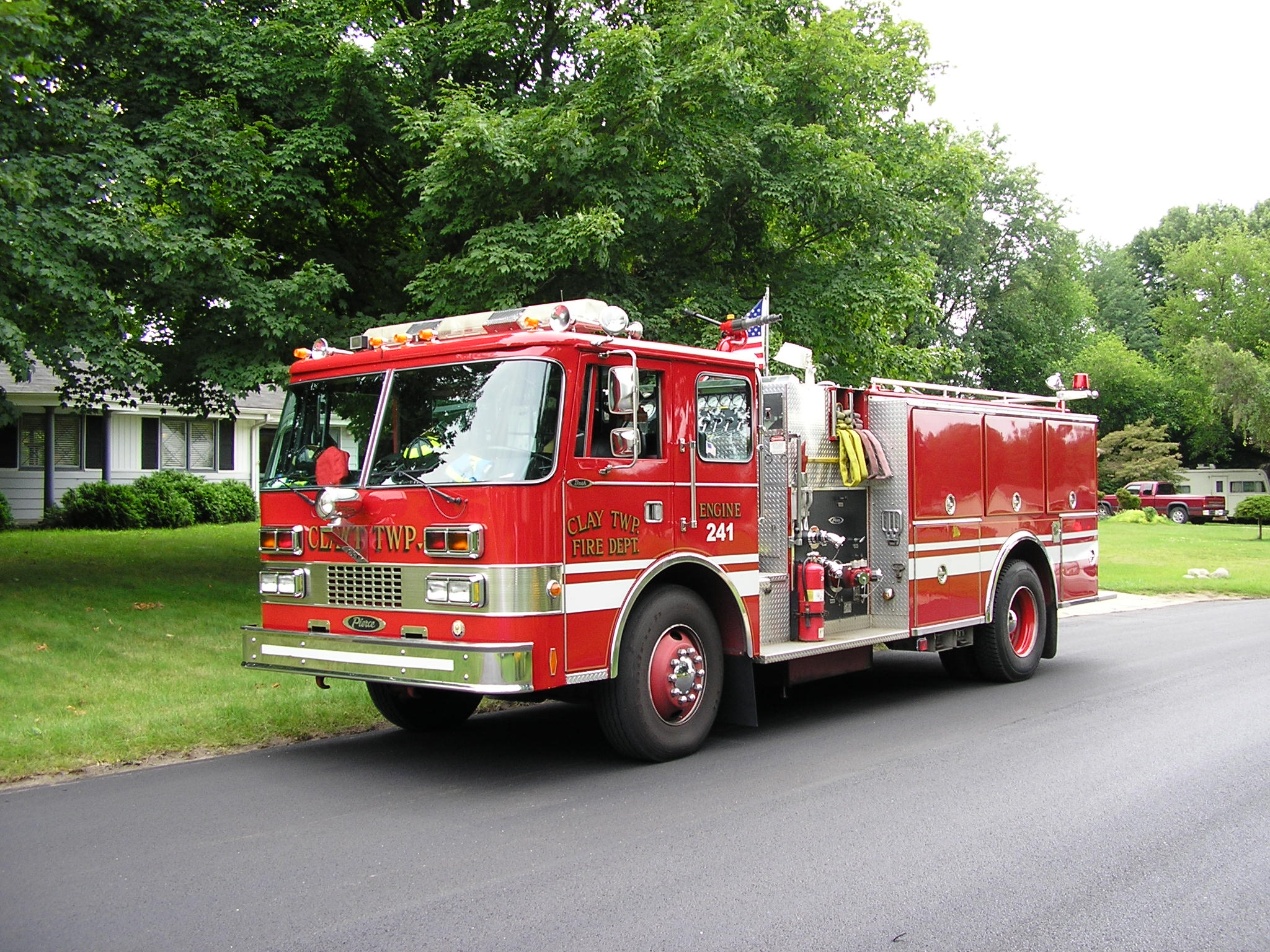 Reserve Engine 249 (ex-Engine 241) of the Clay Fire Territory, IN. 1985 Pierce Dash Pumper which features a 1000 GPM pump and a 1000 gallon water tank author: Georgi Banchev